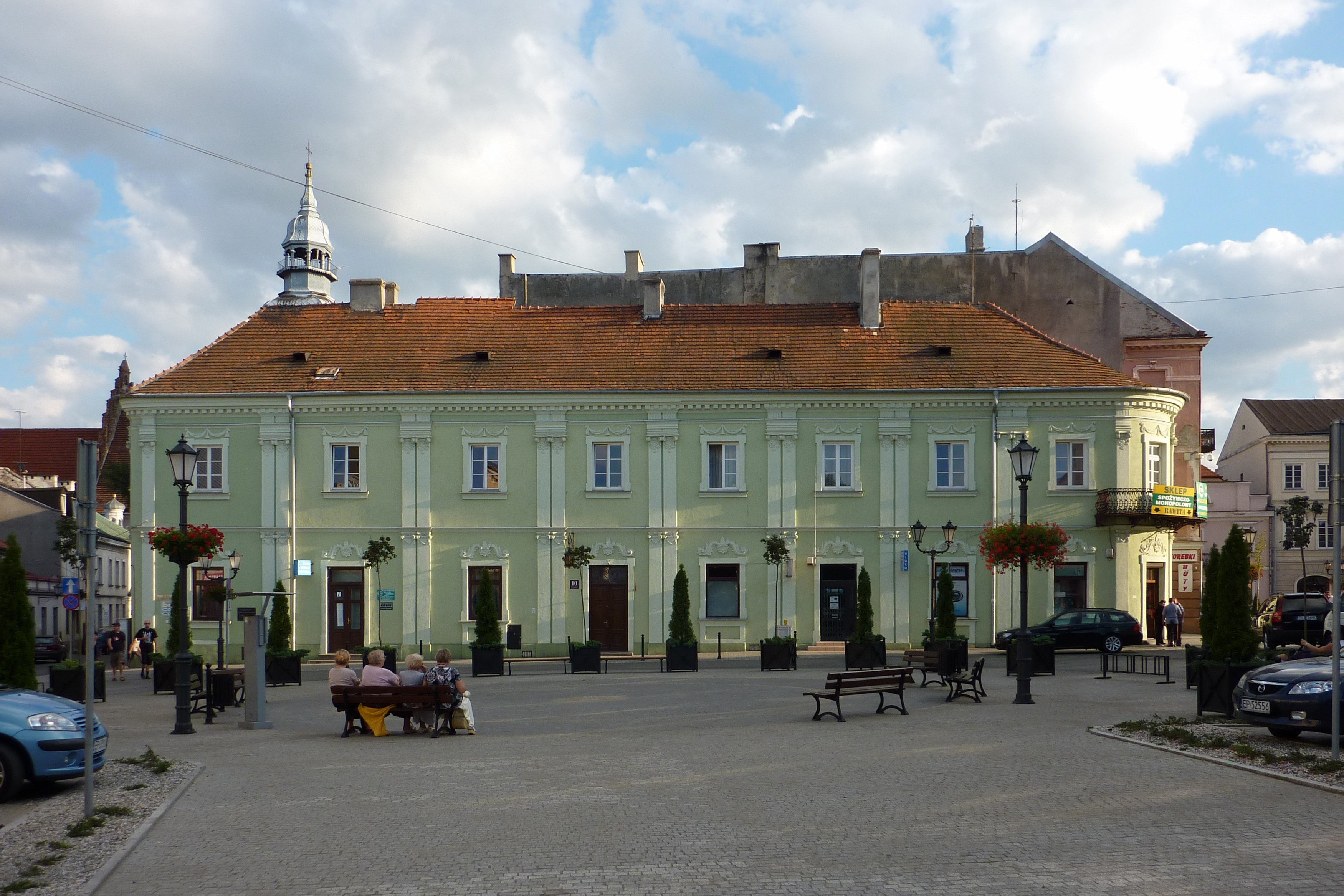 house in Piotrków Trybunalski old town